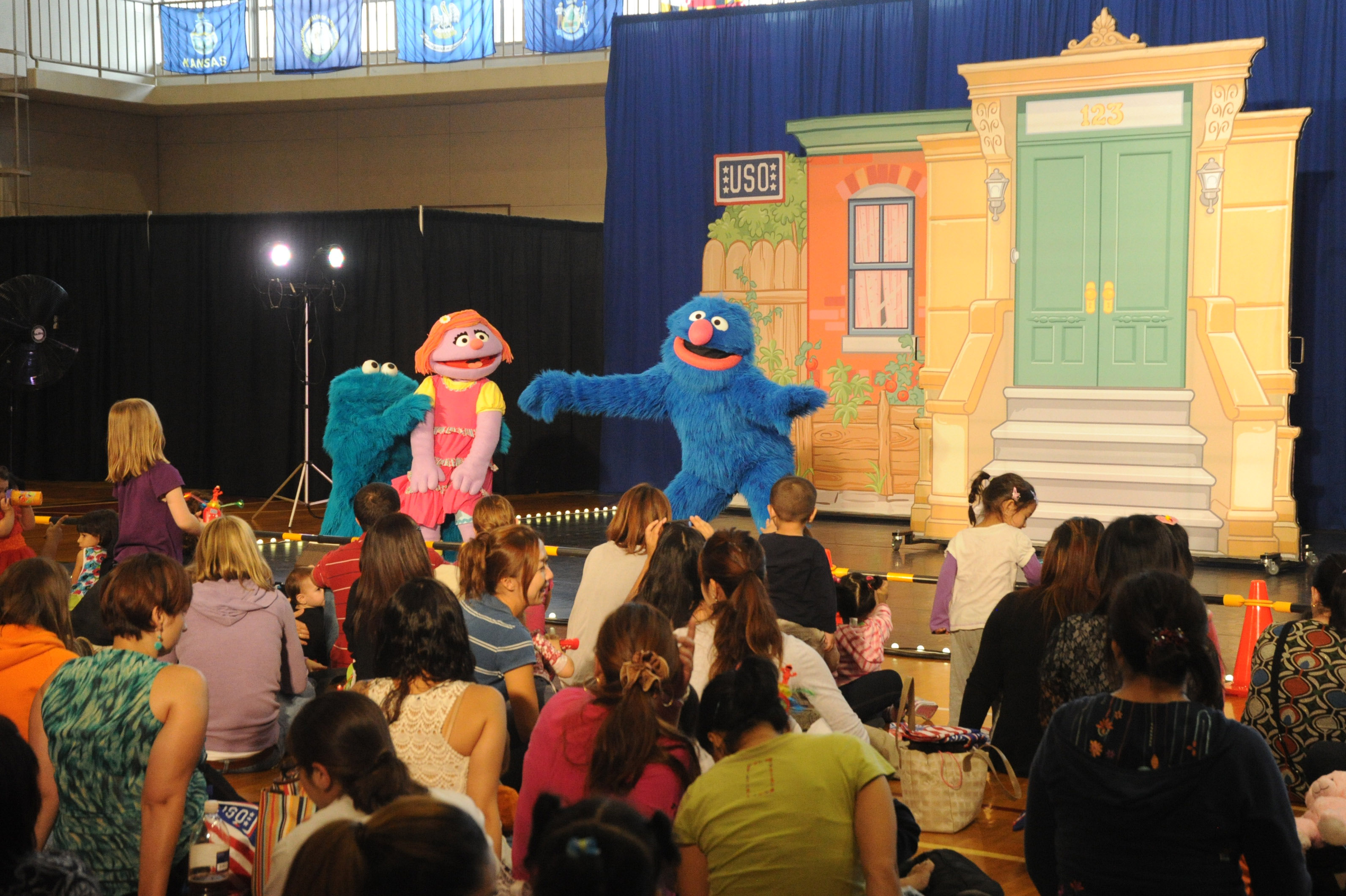 AYASE, Japan (Oct. 13, 2011) Naval Air Facility Atsugi residents watch as Sesame Street characters Grover, Katie, and Cookie Monster sing and dance during a performance at Ranger Gym at Naval Air Facility Atsugi. The show, sponsored by the USO, encourages children in different ways of dealing with military life. (U.S. Navy photo by Mass Communication Specialist Seaman Apprentice Vivian Blakely/Released)